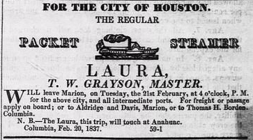 Advertisement for packet service on the Steamboat Laura, Telegraph and Texas Register (Houston, TX), Feb. 21, 1837